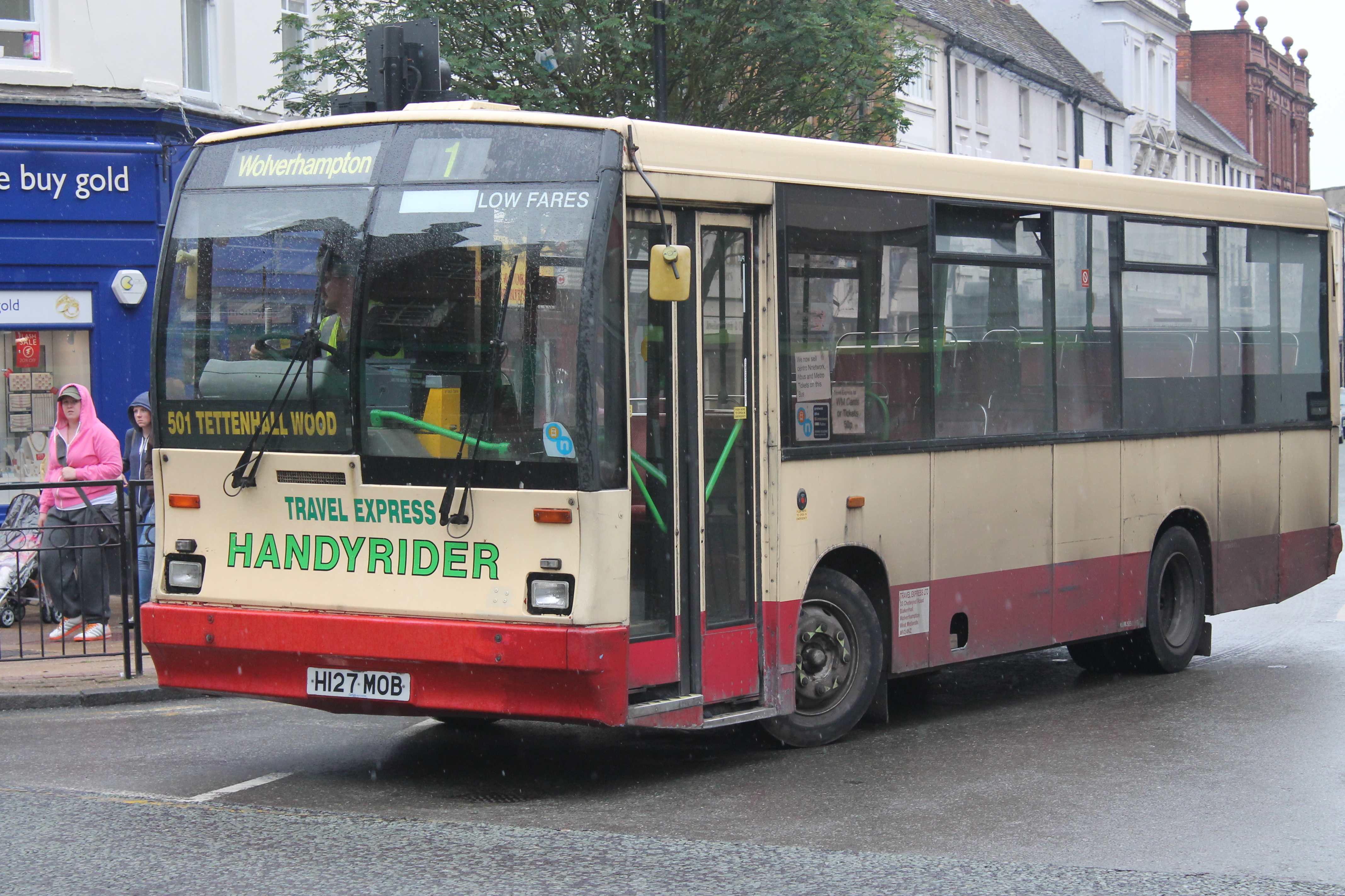 Amazingly, this 23 year old step entrance Dennis Dart still runs regular revenue making services! H127MOB was new to Metroline in London in December 1990. It transferred to Rossendale Transport in July 1997 and to current operator, Travel Express in June 2005. Despite being owned by them for 8 years, it still carries Rossendale's Easyrider livery! This bodywork was fitted to the early Dennis Darts. Originally, it was the Duple Dartline, then Carlyle, and for a short while it was a Marshall. It was produced from 1989 to 1993. It predates the more common Plaxton Pointer bodywork. Surely, apart from in Wolverhampton, these must be rare now? I very much doubt they can survive much longer, after having such a busy life!!! Wolverhampton, 27th June 2013